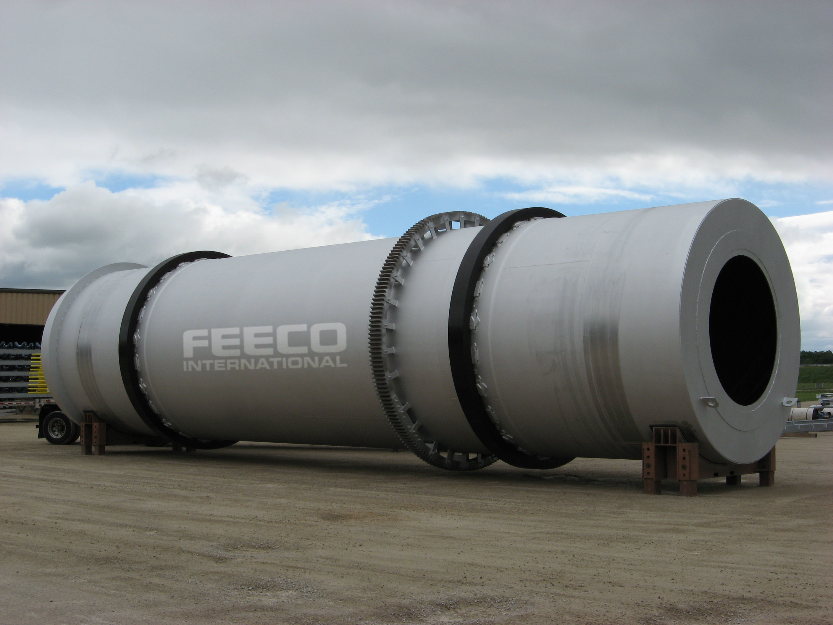 This image shows a rotary kiln engineered and manufactured by FEECO International: Green Bay, WI.